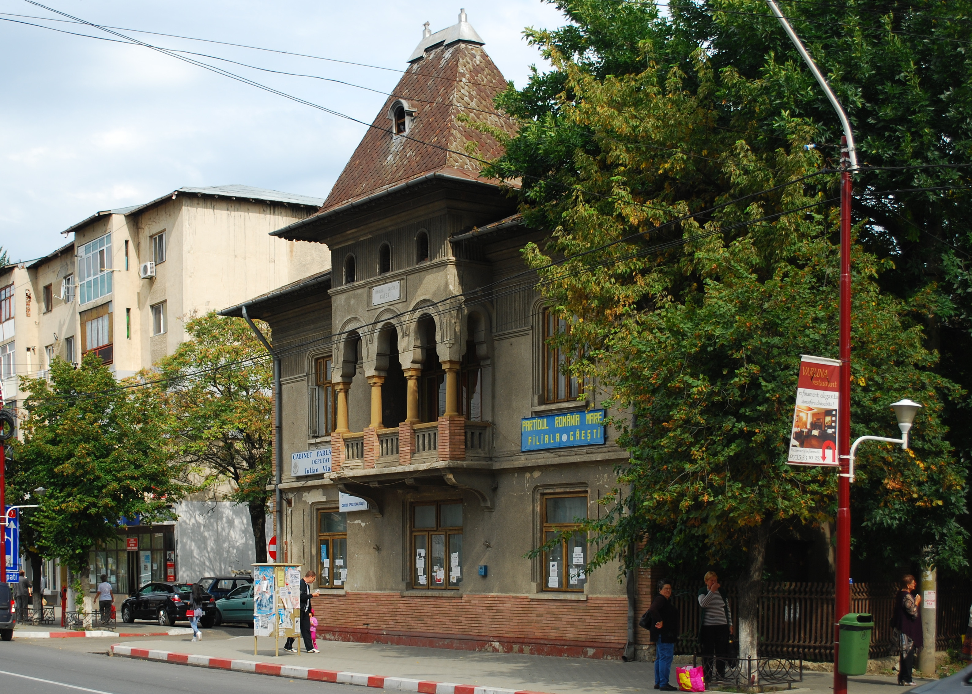 Ciubuc house (former city hall) in Găești, Dâmbovița County, RomaniaRomână: Casa Ciubuc (fosta primărie) din Găești, județul Dâmbovița, România